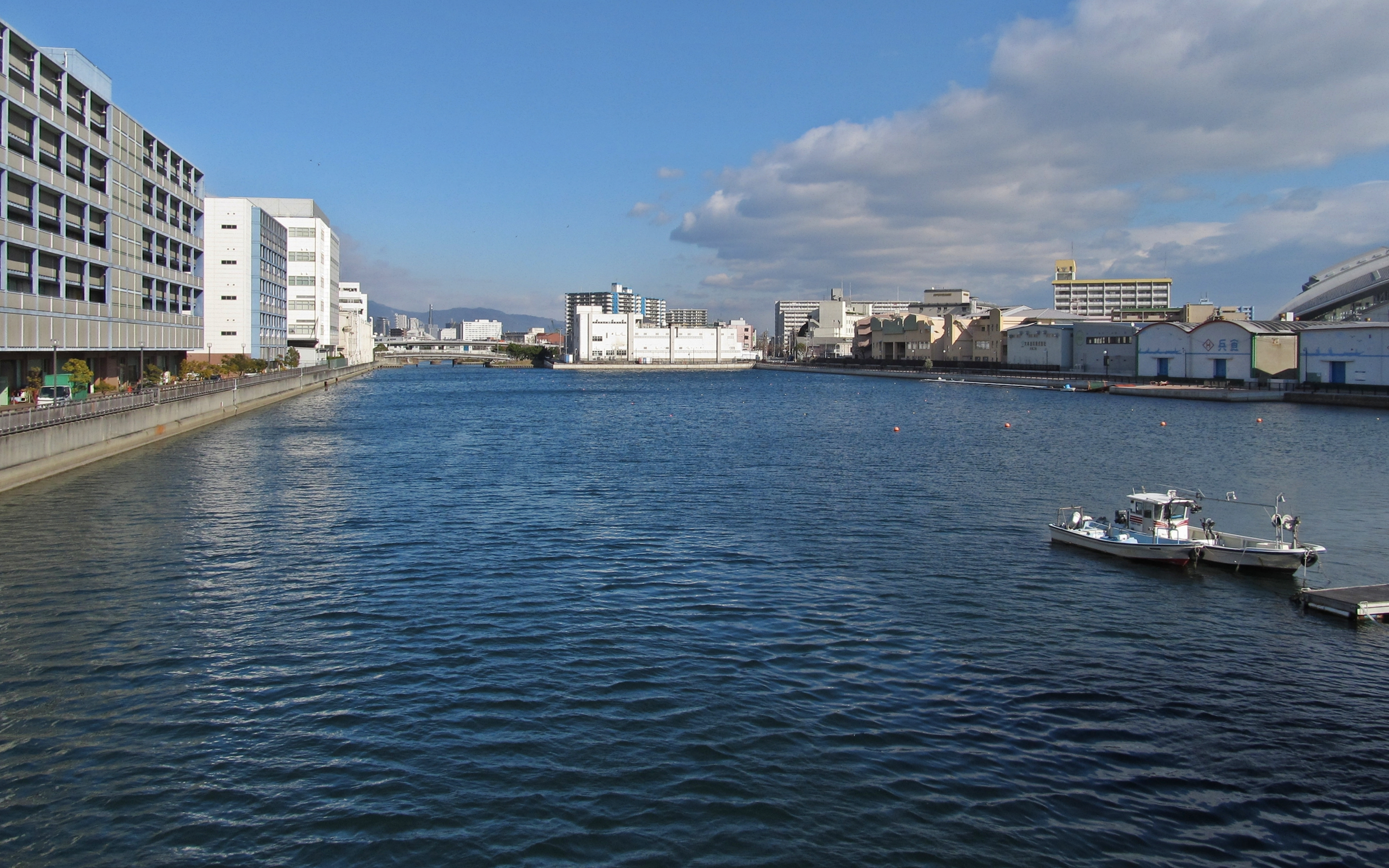 Hyōgo Canal(Hyōgo-ku,Kobe,Hyogo,Japan)